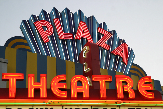 art-deco marquee of Atlanta's Plaza Theatre